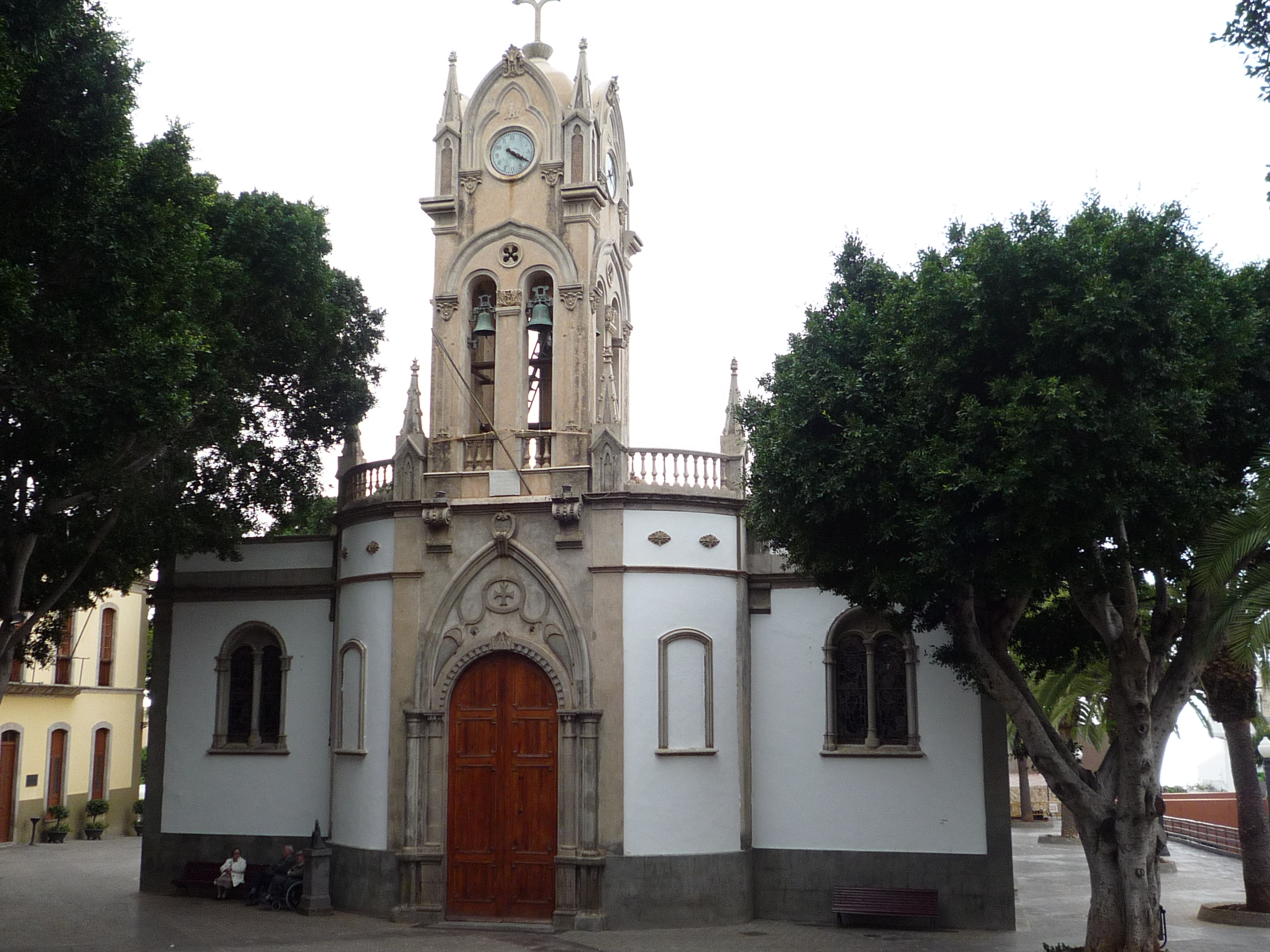 Guía Central Church, Calle de Arriba, Guía de Isora, Tenerife